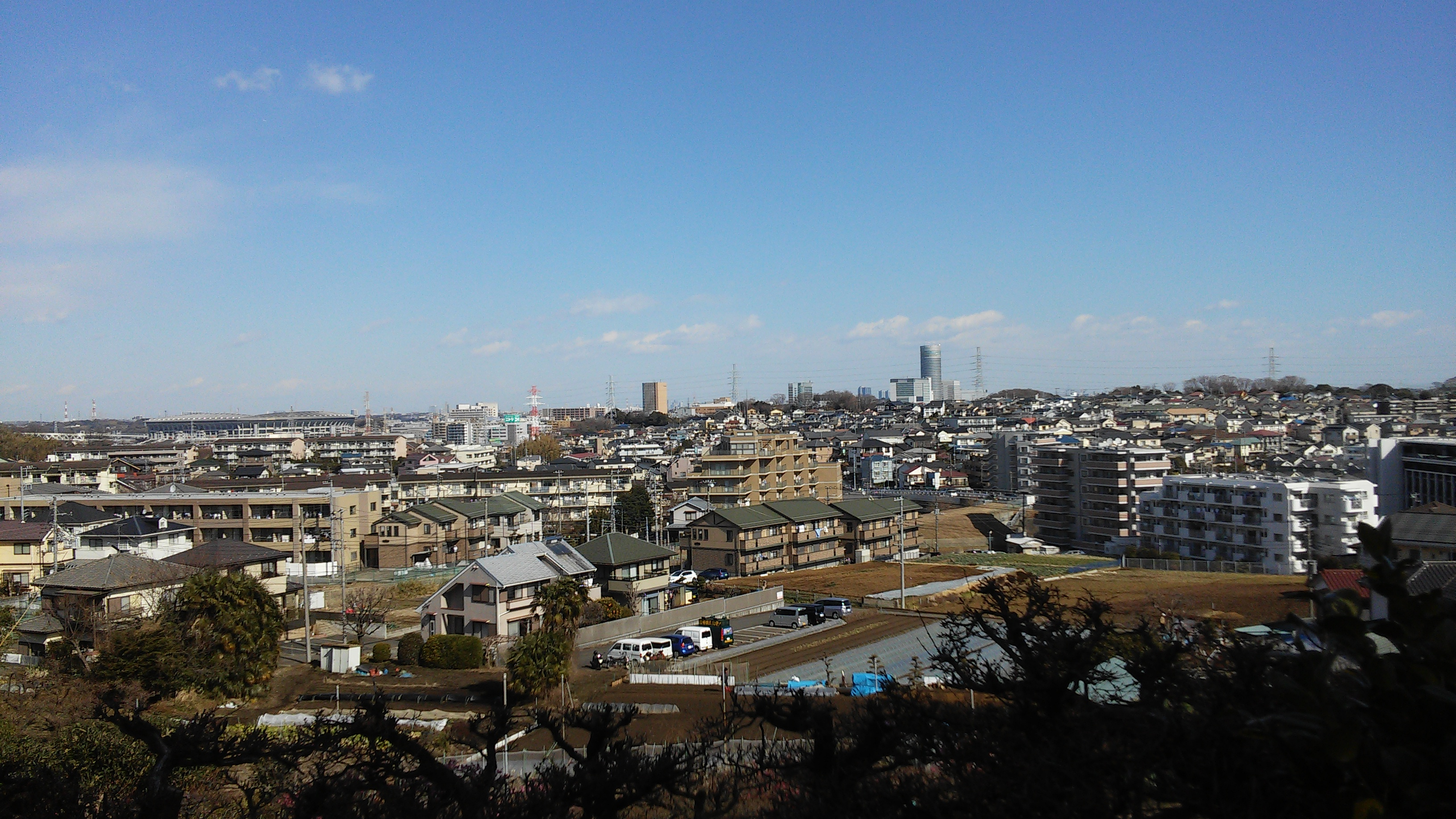 Shin-Yokohama viewed from Katakura, Kanagawa-ku, Yokohama. 新横浜遠景（横浜市神奈川区片倉から）